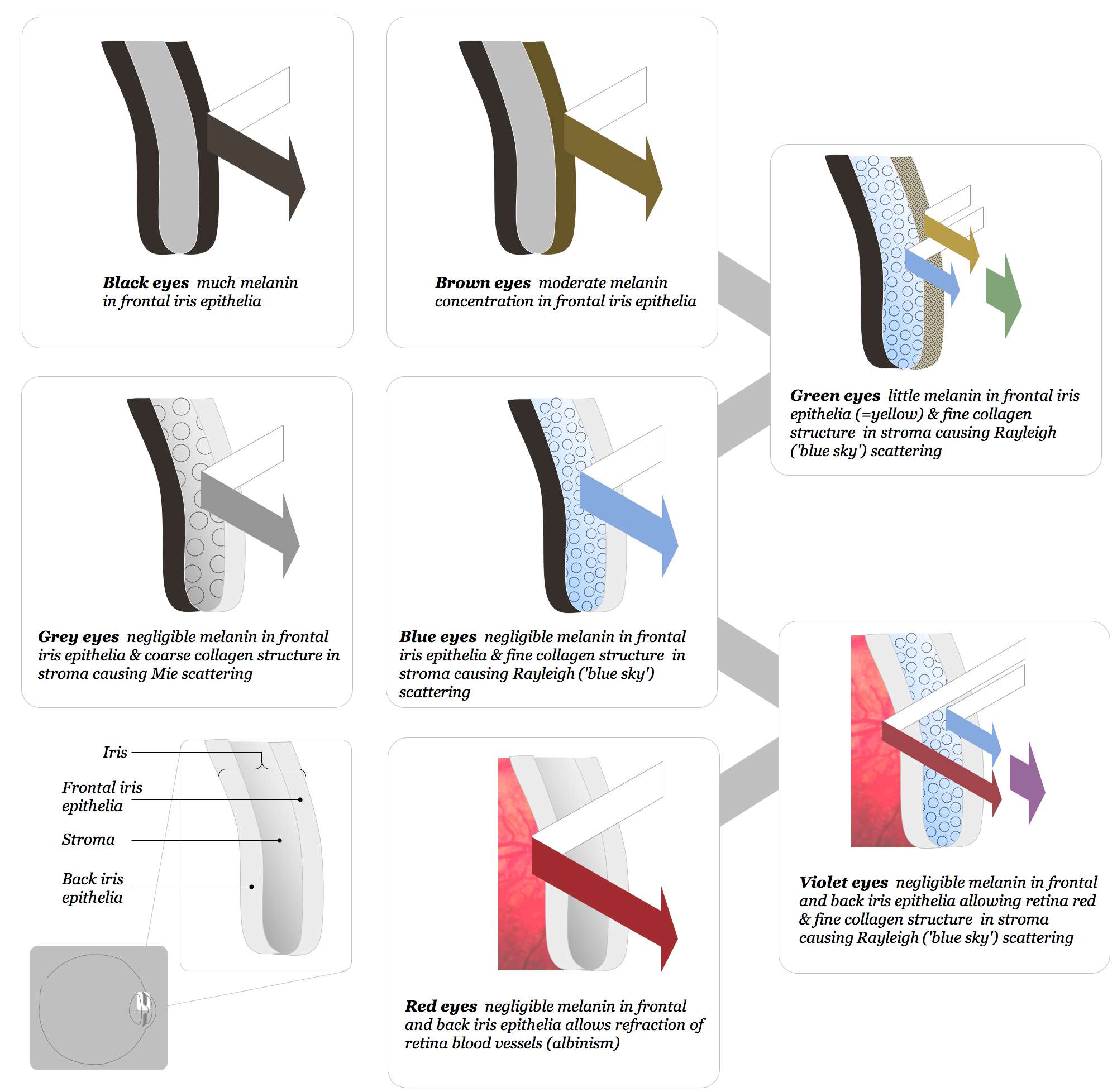 schematic representation of the origin of human eye color